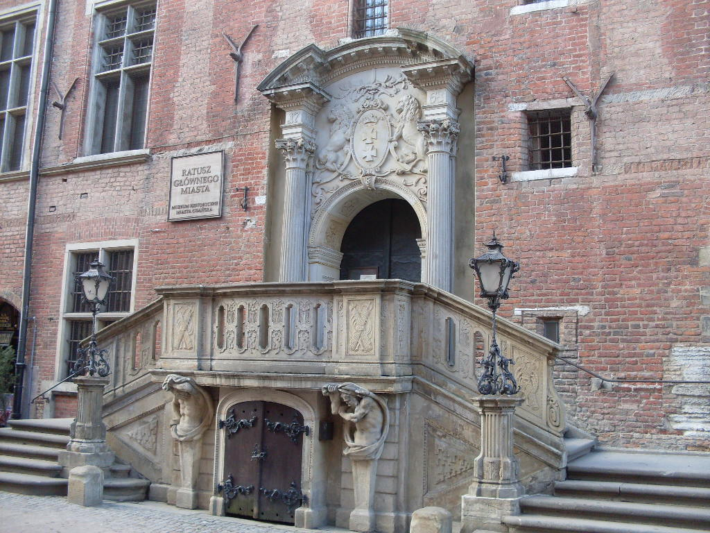 Entrance portal of the town hall in the Maint Town of Gdańsk